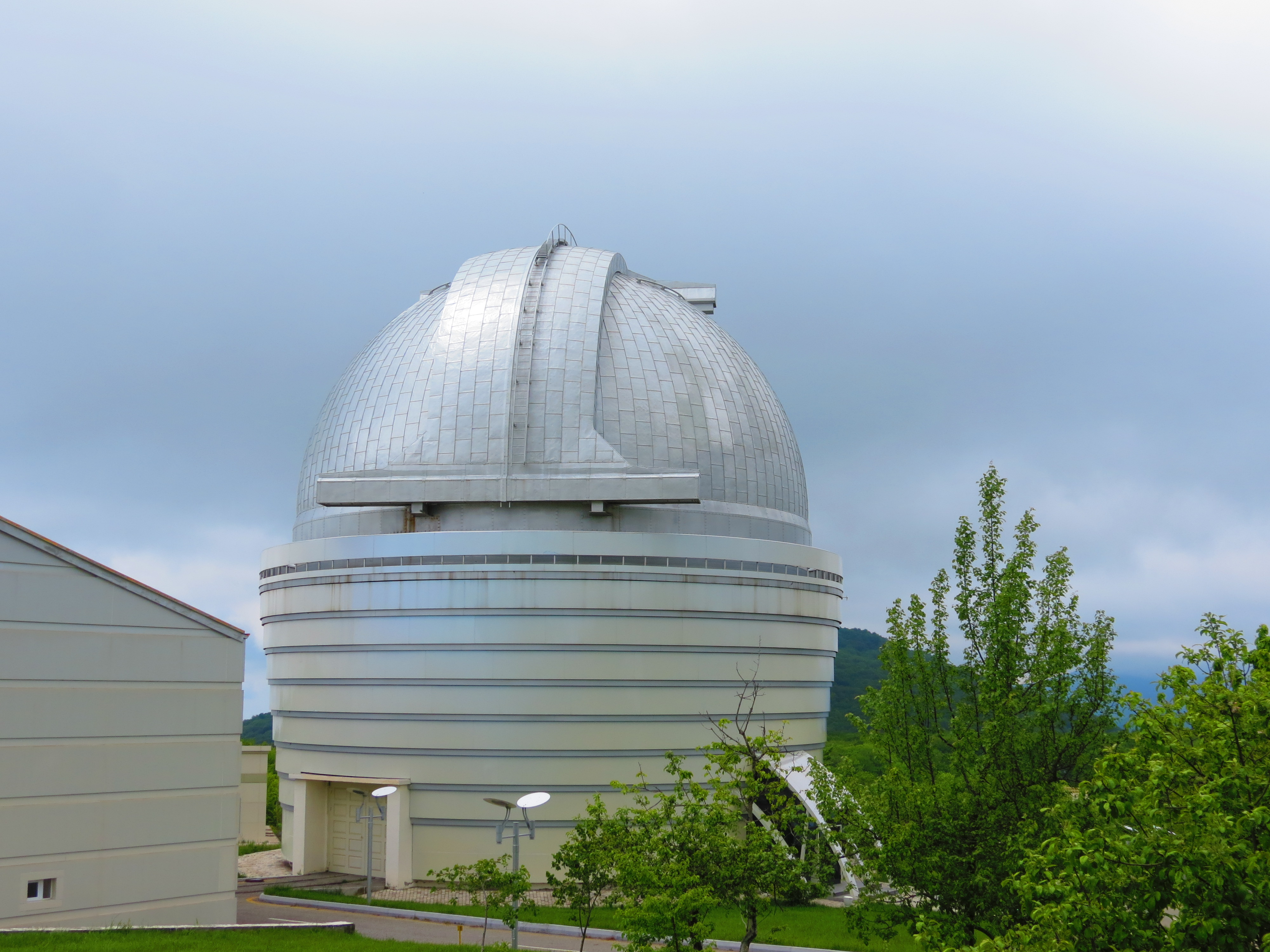 telescope in Pirgulu State Reserve Observatory. Photo by Uzeyir Mikayilov